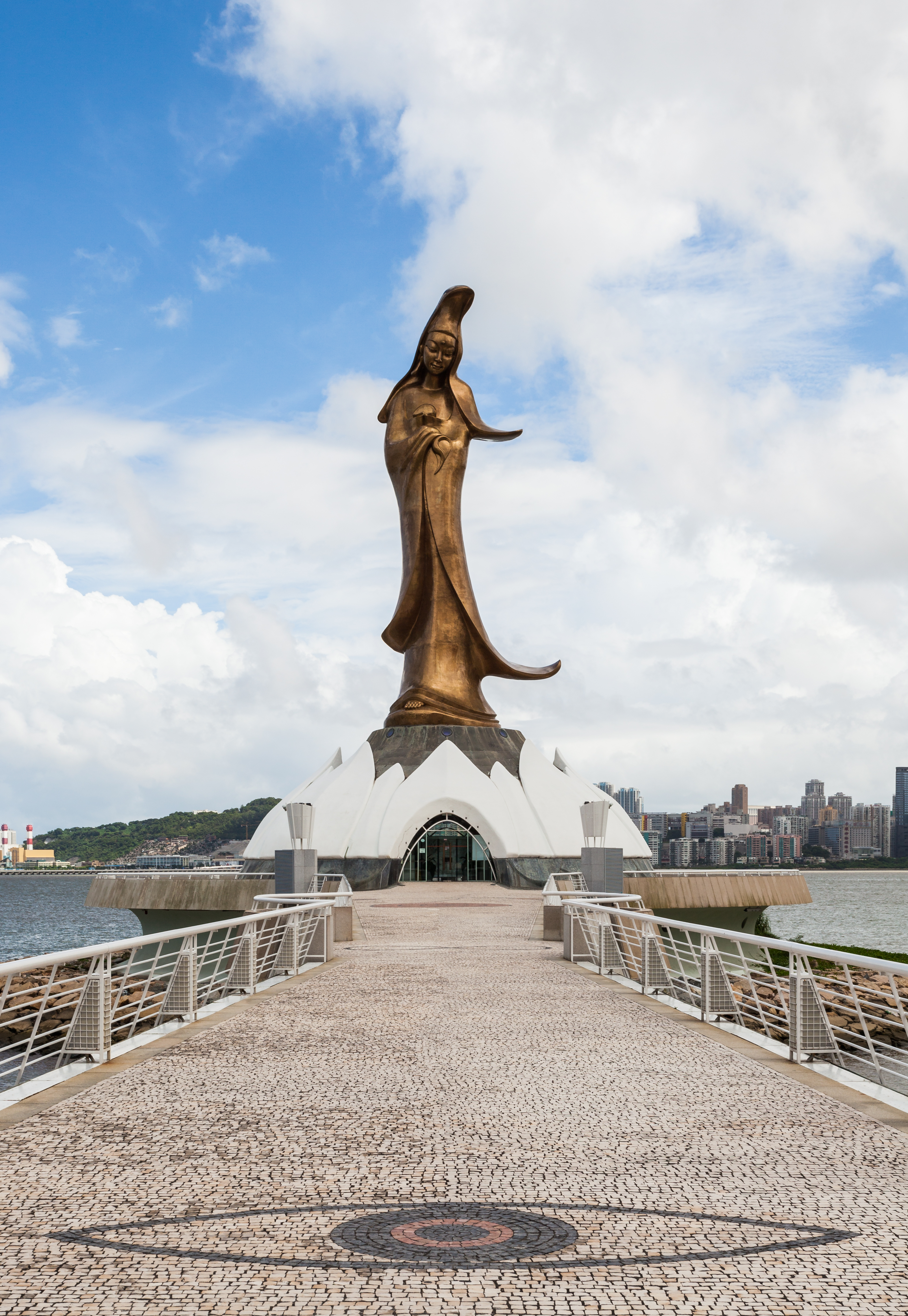 Guan Yin Statue, Macau